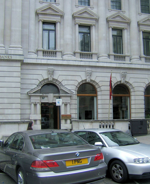 Embassy for Papua New Guinea, 14, Waterloo Place, London WC1 Notice the personalised numberplate for the embassy on the BMW in the foreground. Papua New Guinea (or PNG) gained independence from the UK in 1975 but remains a member of the Commonwealth and retains HM the Queen as the Head of State.